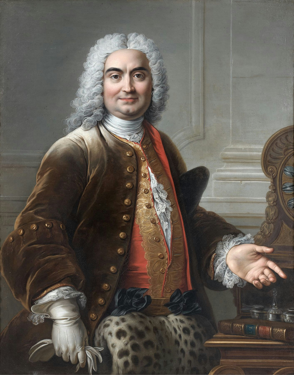 Portrait of Charles de Rohan, Prince of Montauban